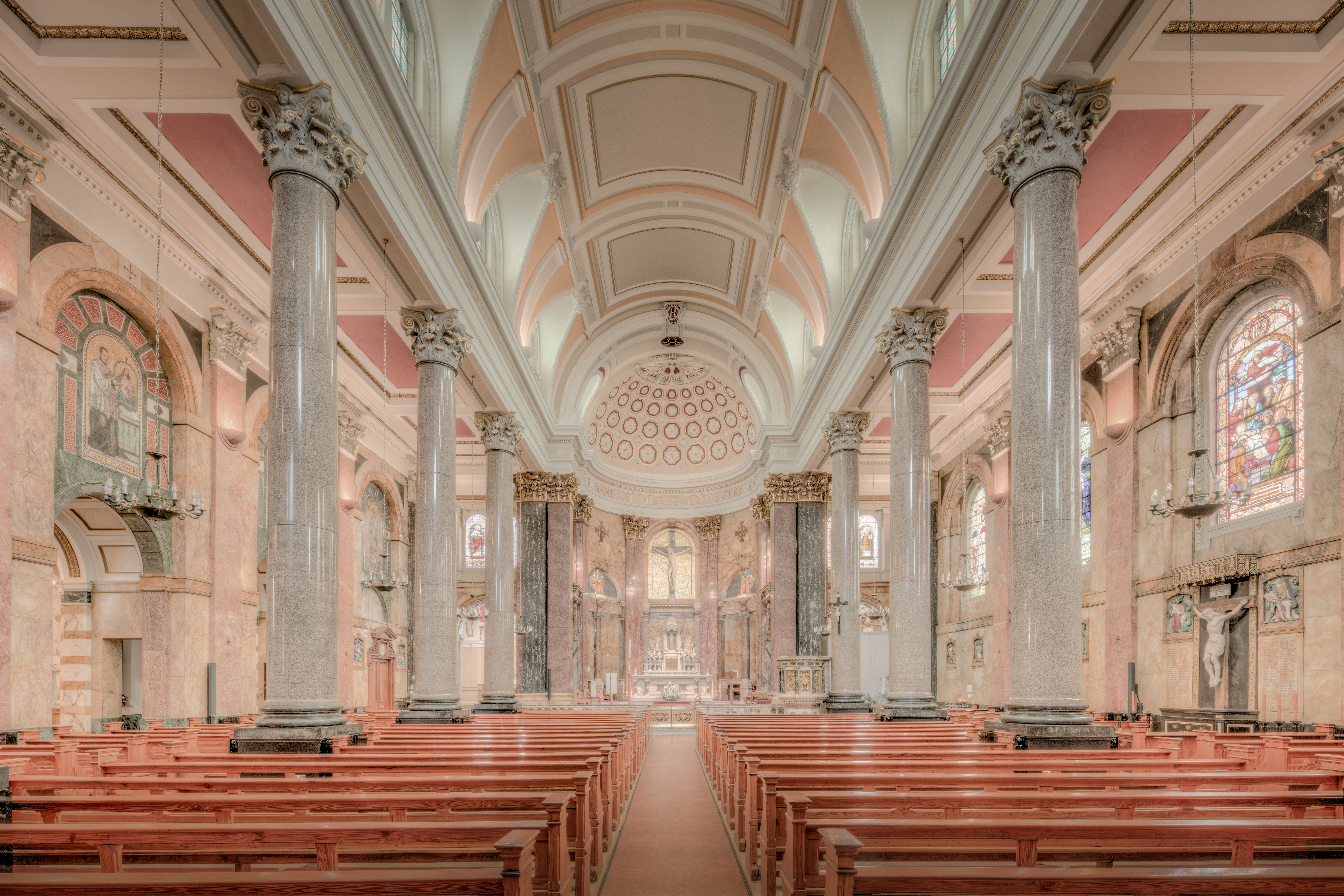 Inside the Roman Catholic church of St Wilfrid, Preston, Lancashire, England, looking south to the chancel